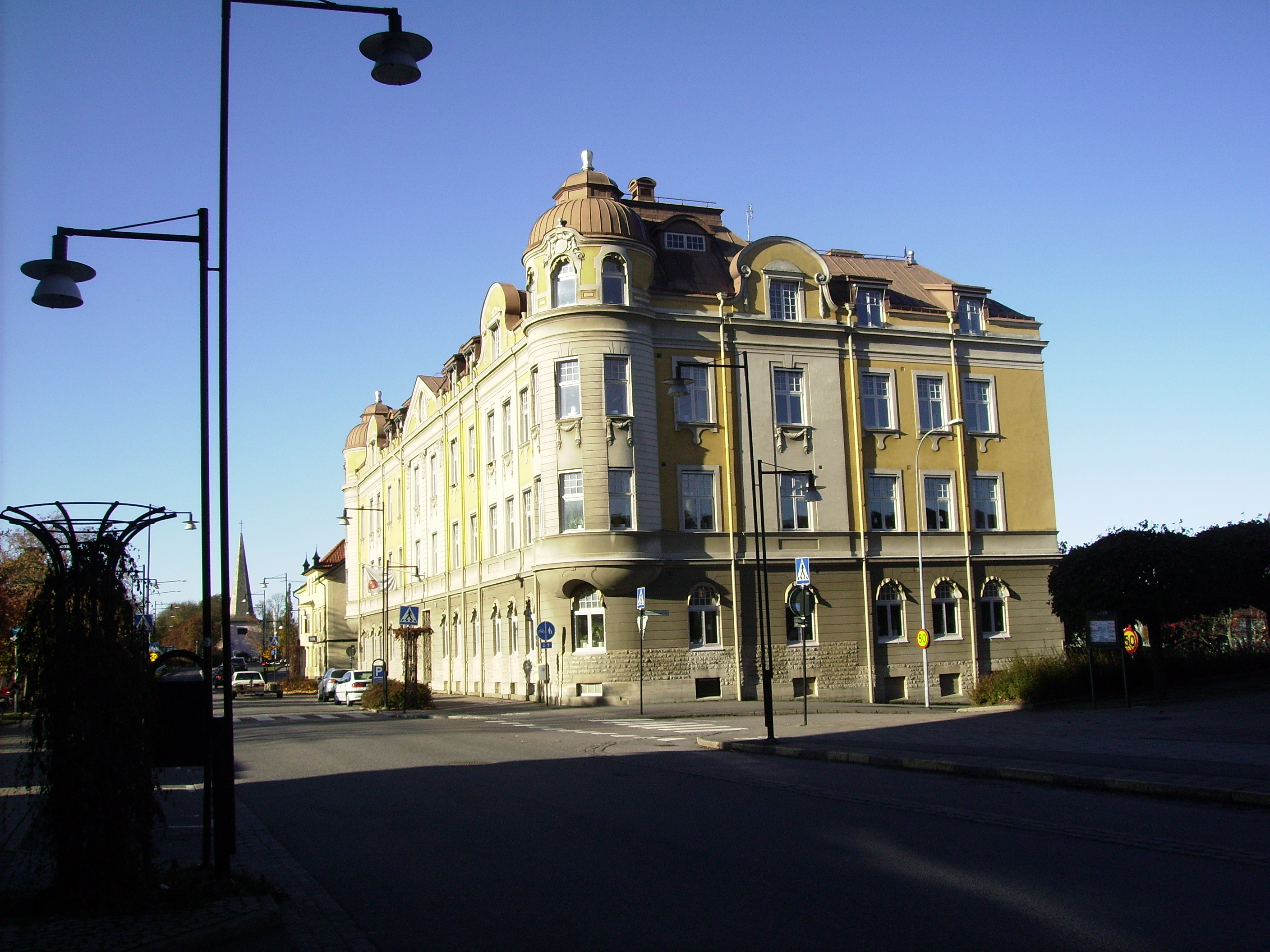 Picture of Hallsbergs kommun's building in Hallsberg in Närke